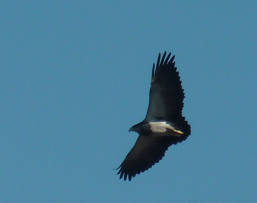 Photograph of an black-chested buzzard-eagle (Chilean blue eagle) in Santiago de Chile